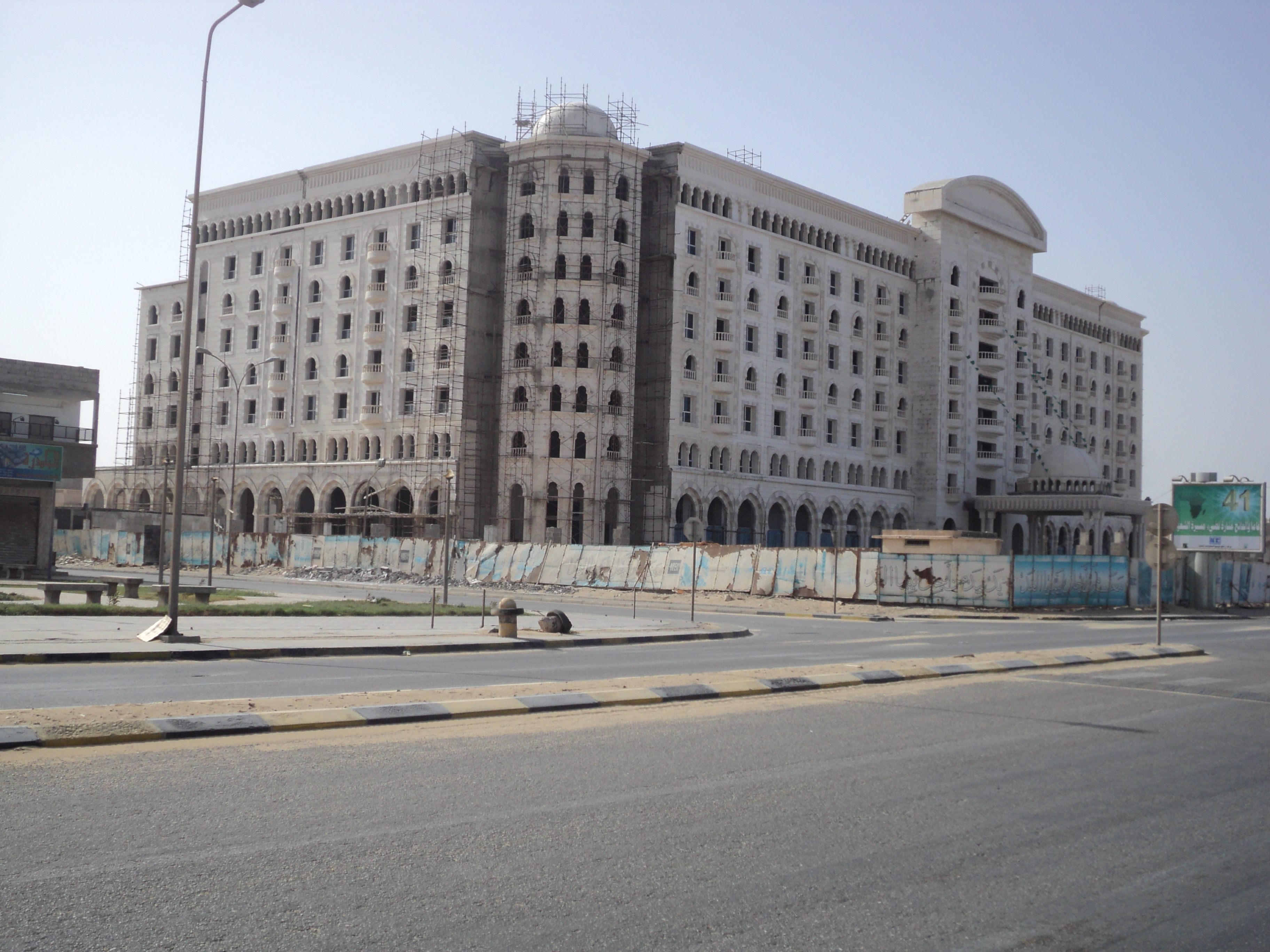 Regency hotel under construction, Benghazi-Libya.